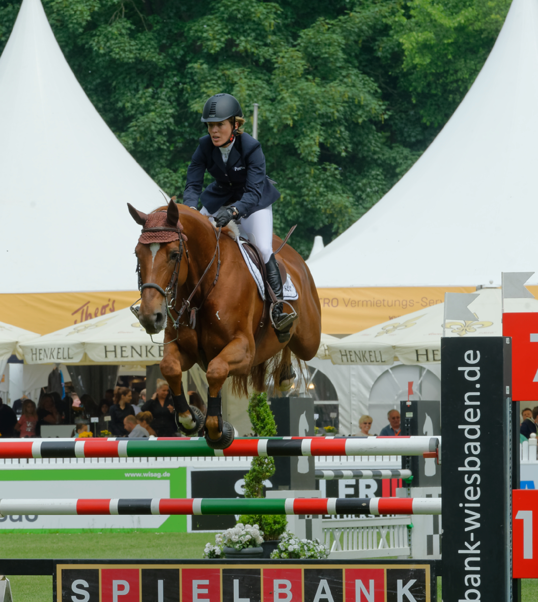 CSIYH* int. Springprüfung nach Strafpunkten und Zeit Internationales Pfingstturnier Wiesbaden 2015 The making of this document was supported by the Community-Budget of Wikimedia Germany.